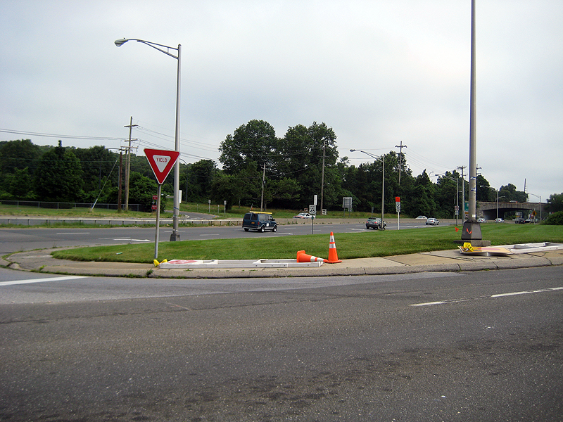 Intersection of Old Country Road and Route 110, Melville, NY. Looking North, the overpass for the Northern State parkway is seen spanning Route 110 in the background (on the right side of the photo). This section of Route 110 is known as Walt Whitman Road, but in other areas Walt Whitman Road is a different road that is parallel to 110.